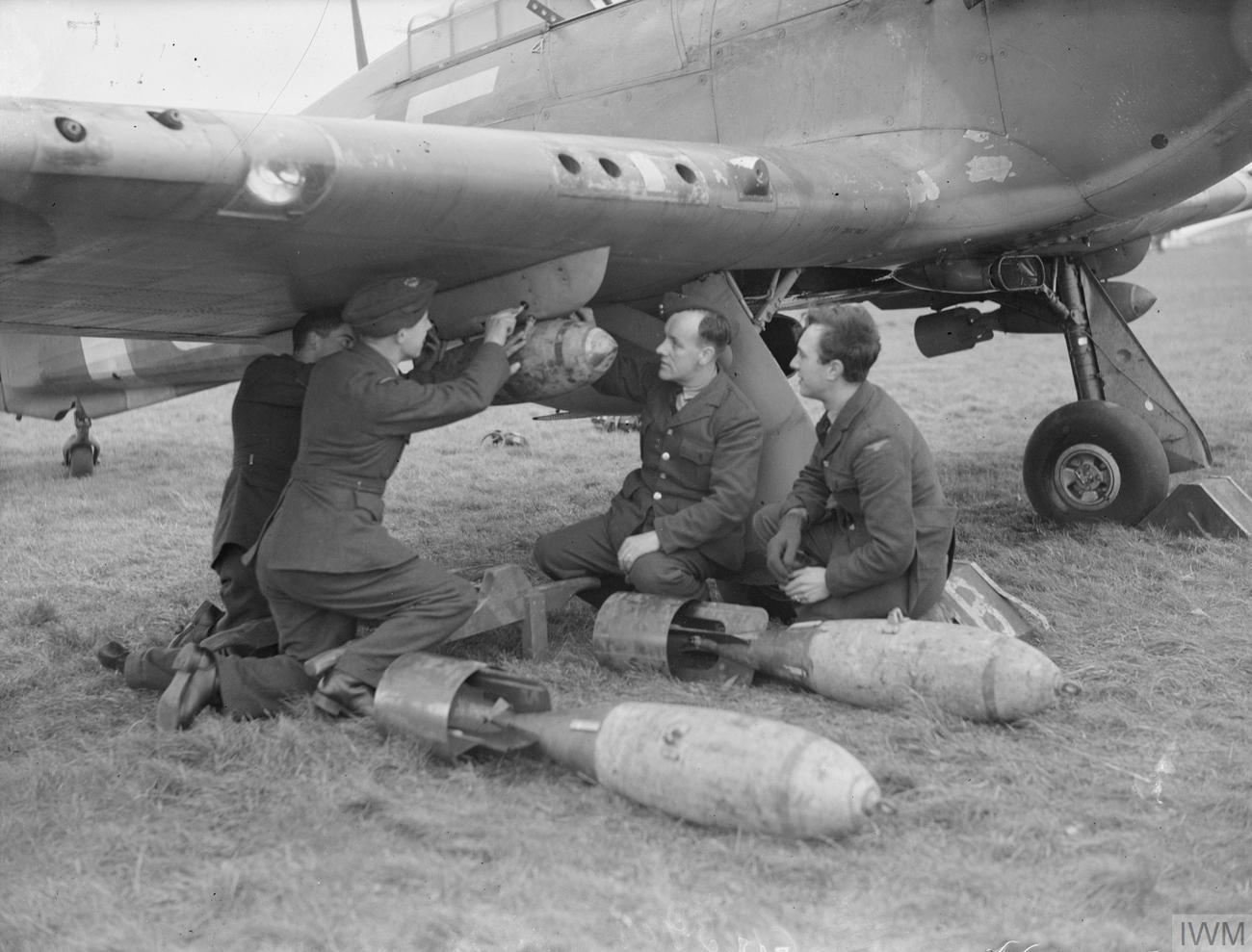 Royal Air Force 1939-1945- Fighter Command A No 402 Squadron RCAF Hurricane Mk IIb 'Hurribomber' being re-armed at Manston, 6 November 1941. Comment: note 6 machine guns mounted in the wing.